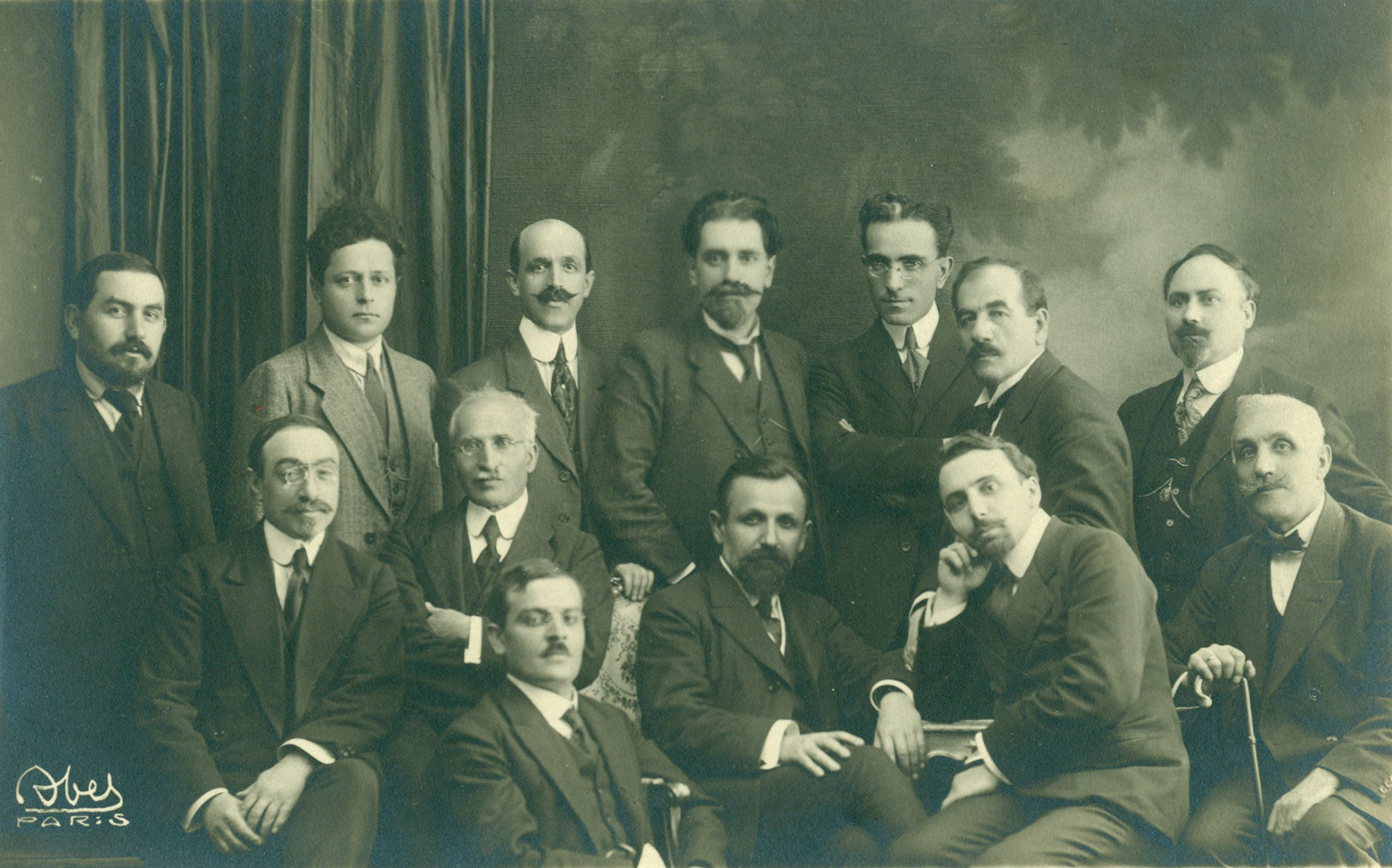 Paris Peace Conference delegation in 1919, headed by Avetis Aharonyan cabinet. Standing from left to right: Simon Hakobian, Simon Narinian, Artavazd Hanmian, Hamazasp Ohanjanian, Manuk Hambardzumian, Garegin Pastrmajian and Zatik Matikian. Sitting from left to right: Levon Shant, Astvatsatur Khachatrian, Nikol Matinian, Avetis Aharonian, Armenak Barseghian and Hakob Nevruz.